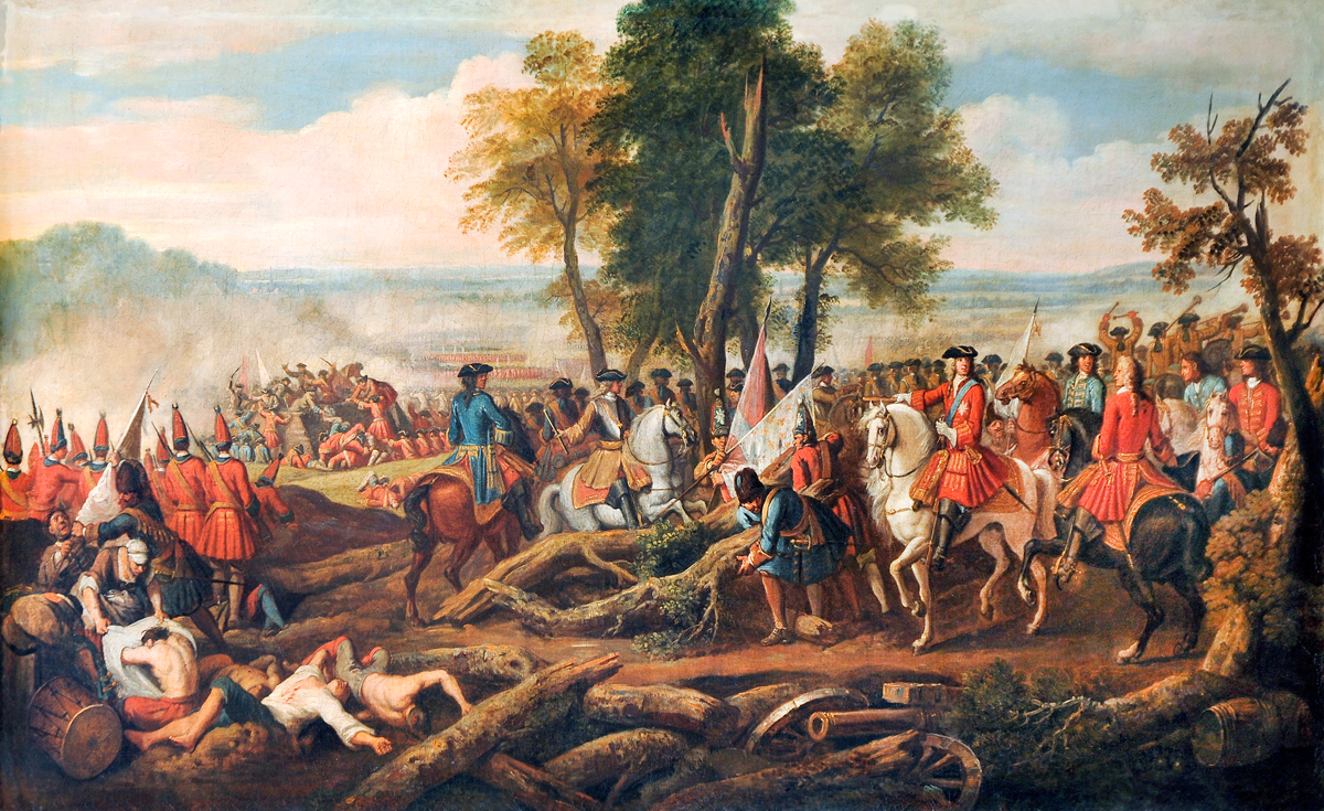 The Battle of Malplaquet (Tanières), 1709: The Duke of Marlborough and Prince Eugene Entering the French Entrenchments (eight ricordi of the Marlborough House murals)